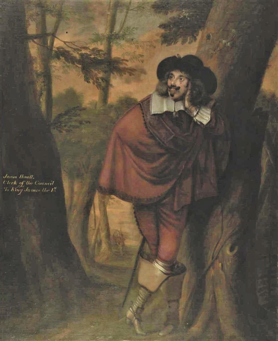 A painting from the Framed Works of Art collection at the National Library of wales.